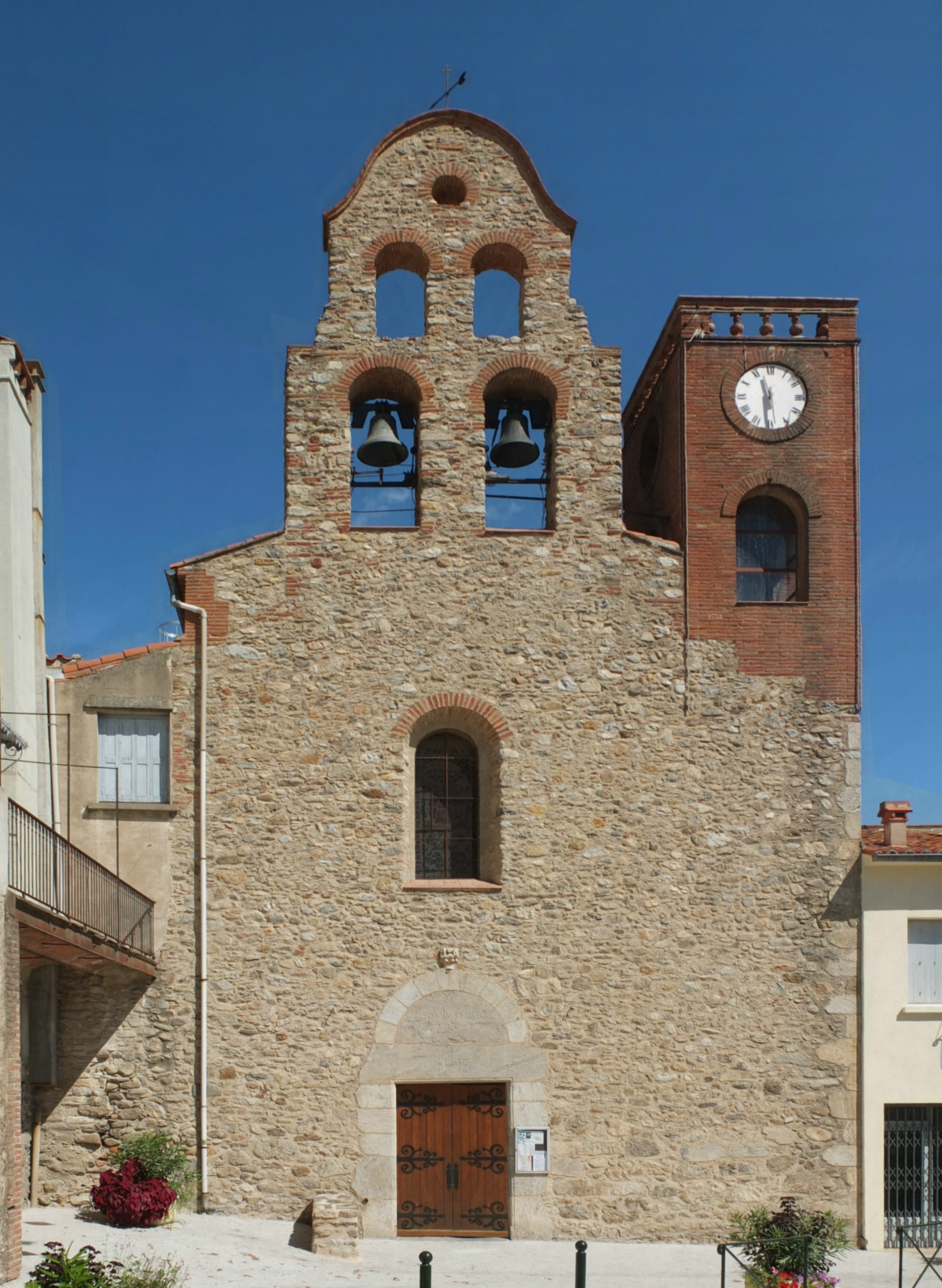 Parish church Saint-Assiscle et Sainte-Victoire, Sorède, France (view S).